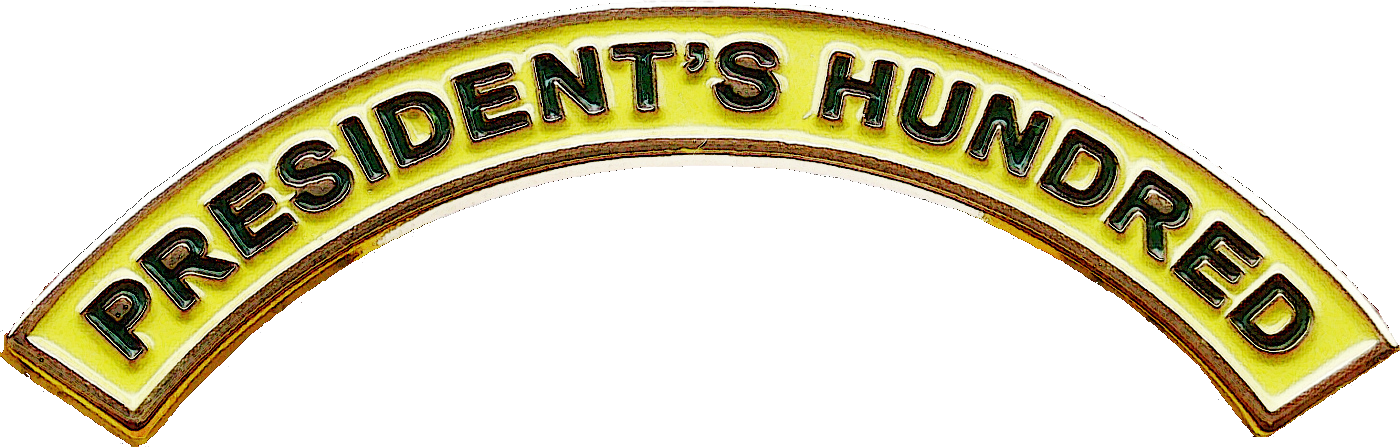 Digital painting of the U.S. Army's miniature metal variant of the President's Hundred Tab used for wear on the Army Service Uniform